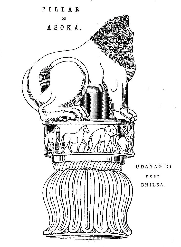 Ashoka pillar Udayagiri near Vidisha. Now in the Gwalior Archeological Museum [1]